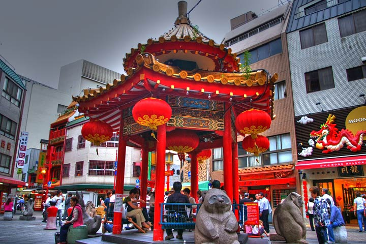 Chinatown：神戸南京町